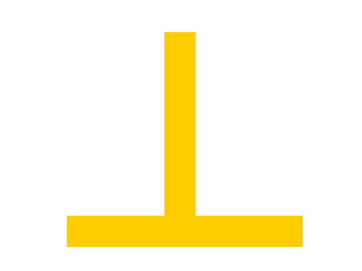 Mark of Ww2 GermanDivision Panzer 7 - July 1943 - Operation Ztadelle